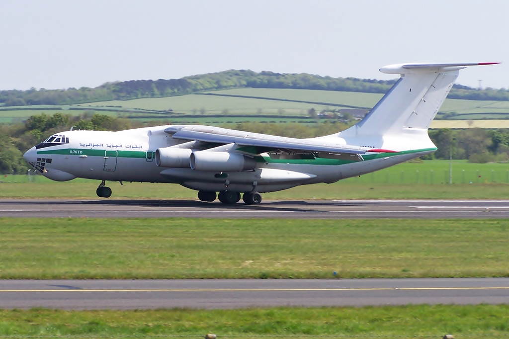 7T-WIU Ilyushin IL76TF Algerian Air Force landing at Prestwick. Other photographs in this sequence : File:7T-WIU (8590326716).jpg